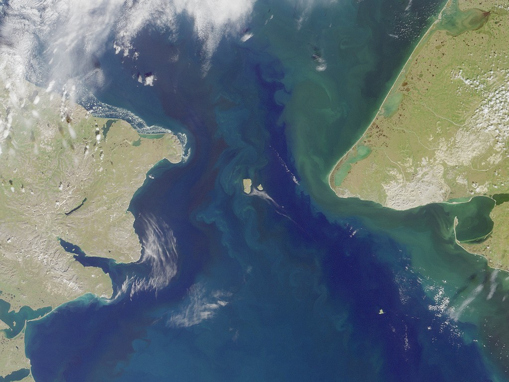 Bering strait, image taken by MISR satellite. With the Seward Peninsula of Alaska to the east, and Chukotskiy Poluostrovof Siberia to the west, the Bering Strait separates the United States and the Russian Federation by only 90 kilometers. It is named for Danish explorer Vitus Bering, who spotted the Alaskan mainland in 1741 while leading an expedition of Russian sailors. This view of the region was captured by MISR's vertical-viewing (nadir) camera on August 18, 2000 during Terra orbit 3562. The boundary between the US and Russia lies between Big and Little Diomede Islands, which are visible in the middle of the Bering Strait. The Arctic Circle, at 66.5 degrees north latitude, runs through the Arctic Ocean in the top part of this image. This circle marks the southernmost latitude for which the Sun does not rise above the horizon on the day of the winter solstice. At the bottom of this image is St. Lawrence Island. Situated in the Bering Sea, it is part of Alaska and home to Yupik Eskimos. MISR was built and is managed by NASA's Jet Propulsion Laboratory, Pasadena, CA, for NASA's Office of Earth Science, Washington, DC. The Terra satellite is managed by NASA's Goddard Space Flight Center, Greenbelt, MD. JPL is a division of the California Institute of Technology. For